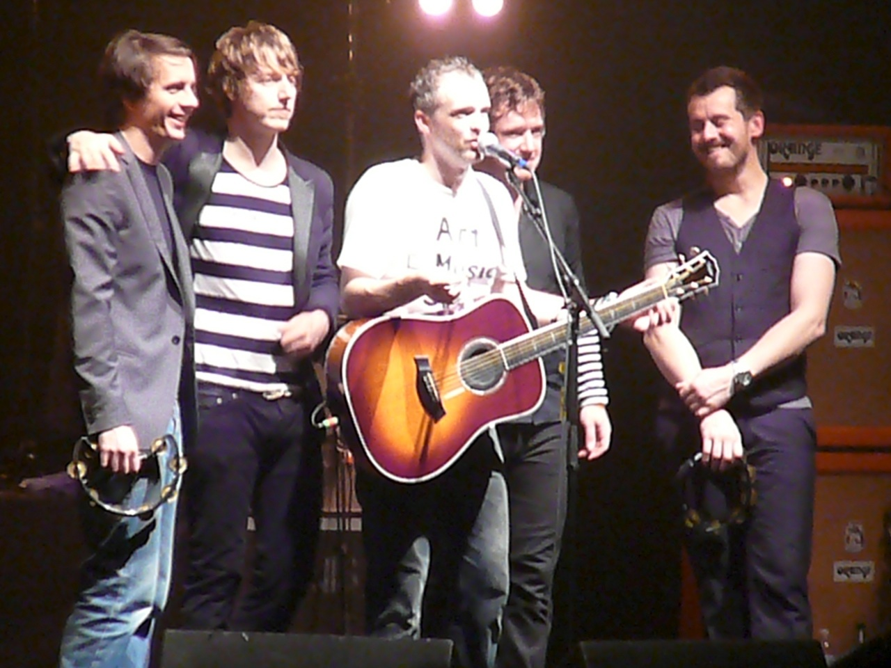 Travis @ The Wiltern Theatre, Los Angeles, California, 21 Nov 2007P1080834